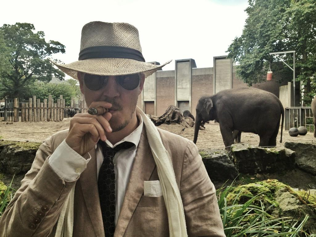 Tom Six, Director and creator of the (in)famous Human Centipede series